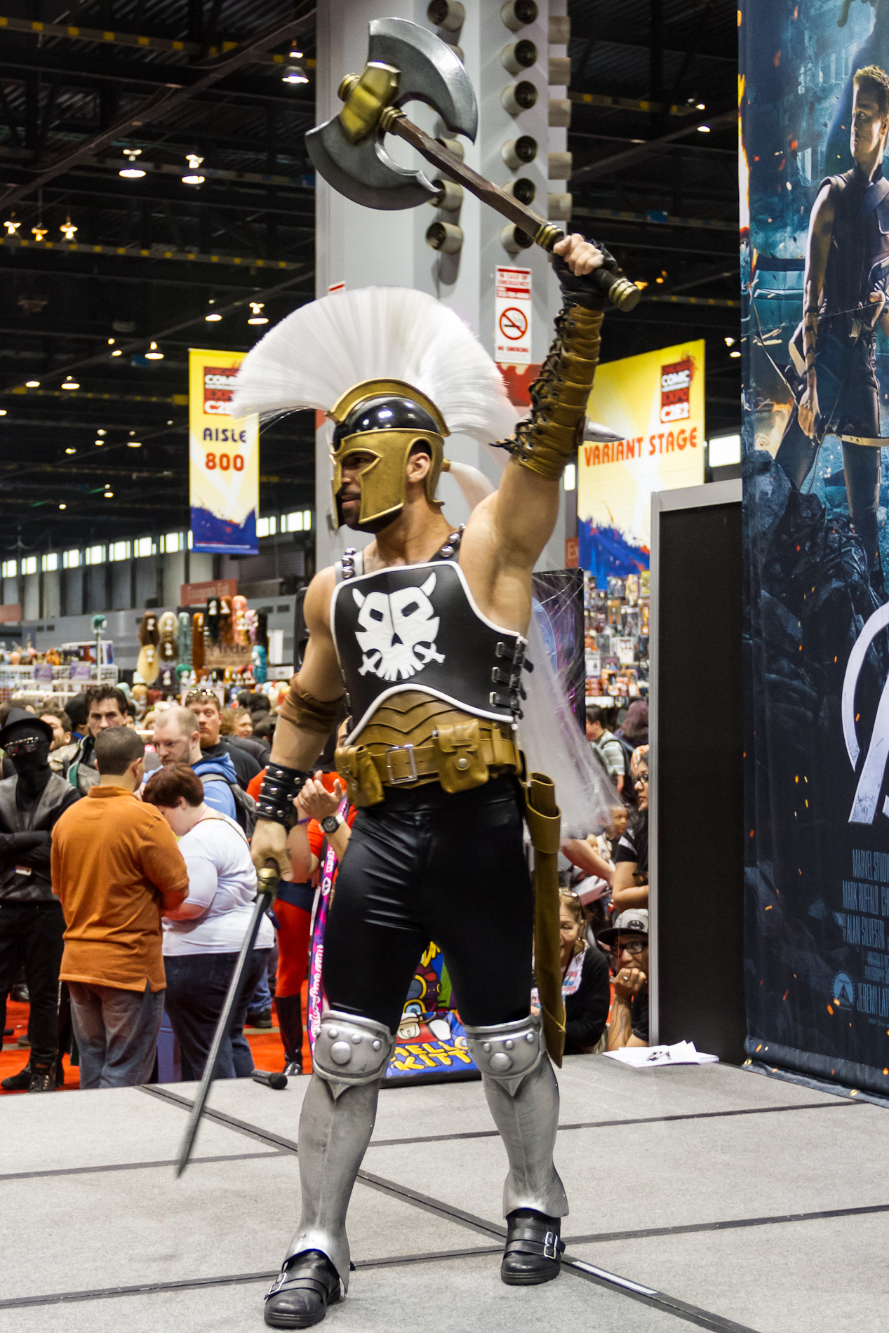 Cosplay of Ares, God of War, at 2012 C2E2 Marvel Costume Contest.